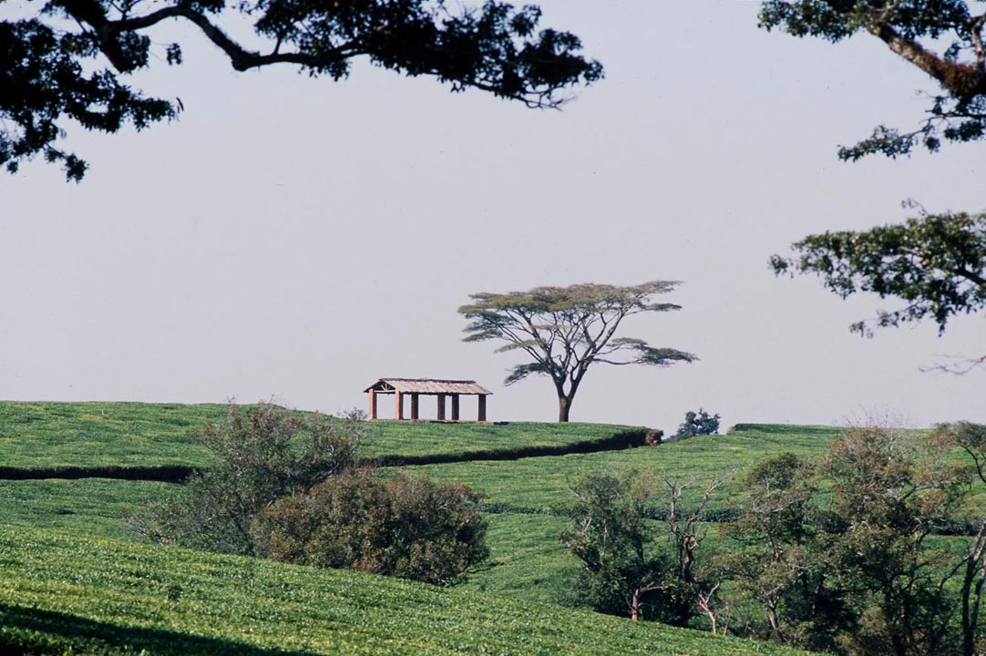 Tea plantation in Malawi, Africa